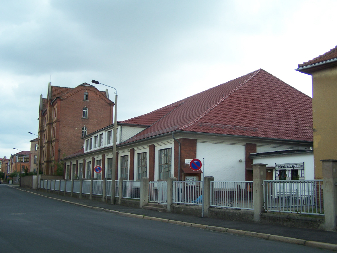 Eisenach, August-Bebel-Straße - there is the Jahnsporthalle gym.